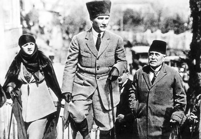 Mustafa Kemal Atatürk and his wife Latife Uşşaki-Adana (1923).